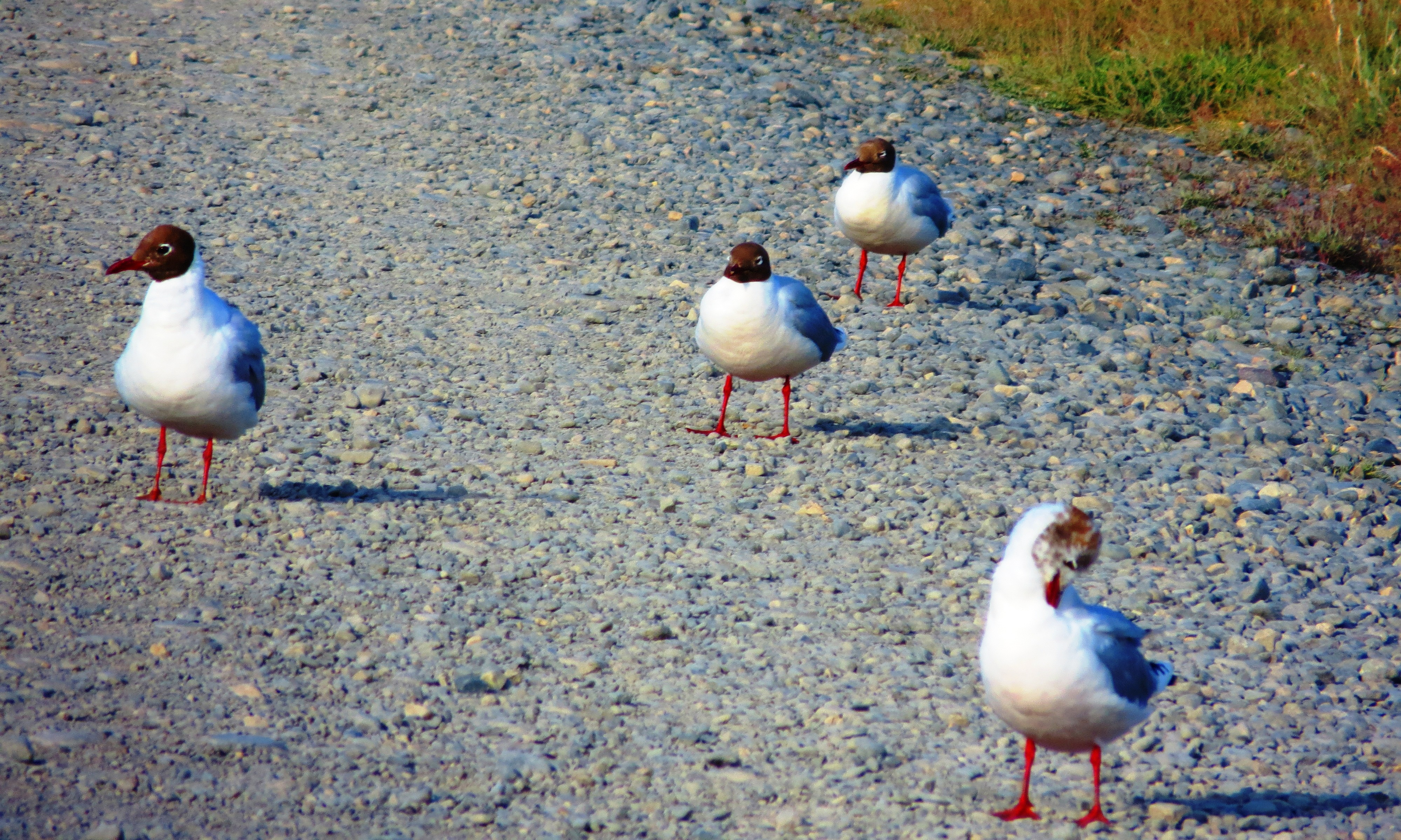 A group of Brown-hooded Gulls (Chroicocephalus maculipennis), Torres del Paine National Park, Chile. The bird in the foreground is a juvenile.